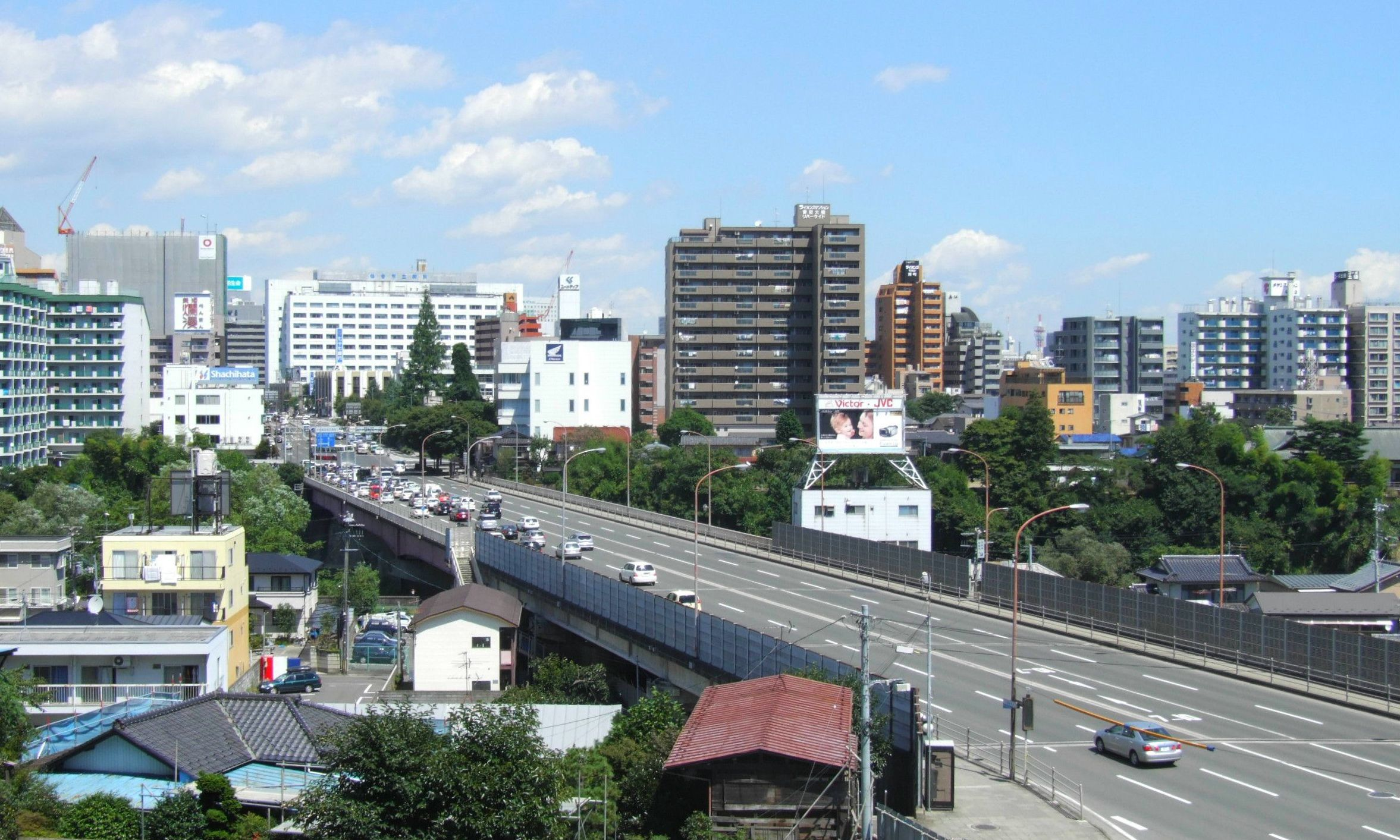 Atago Grand Bridge. From Koeji, Taihaku ward, Sendai, Miyagi prefecture, Japan. Northward from the front stair road of Atago Shrine. Opposite side of the river is belonged to Aoba ward.